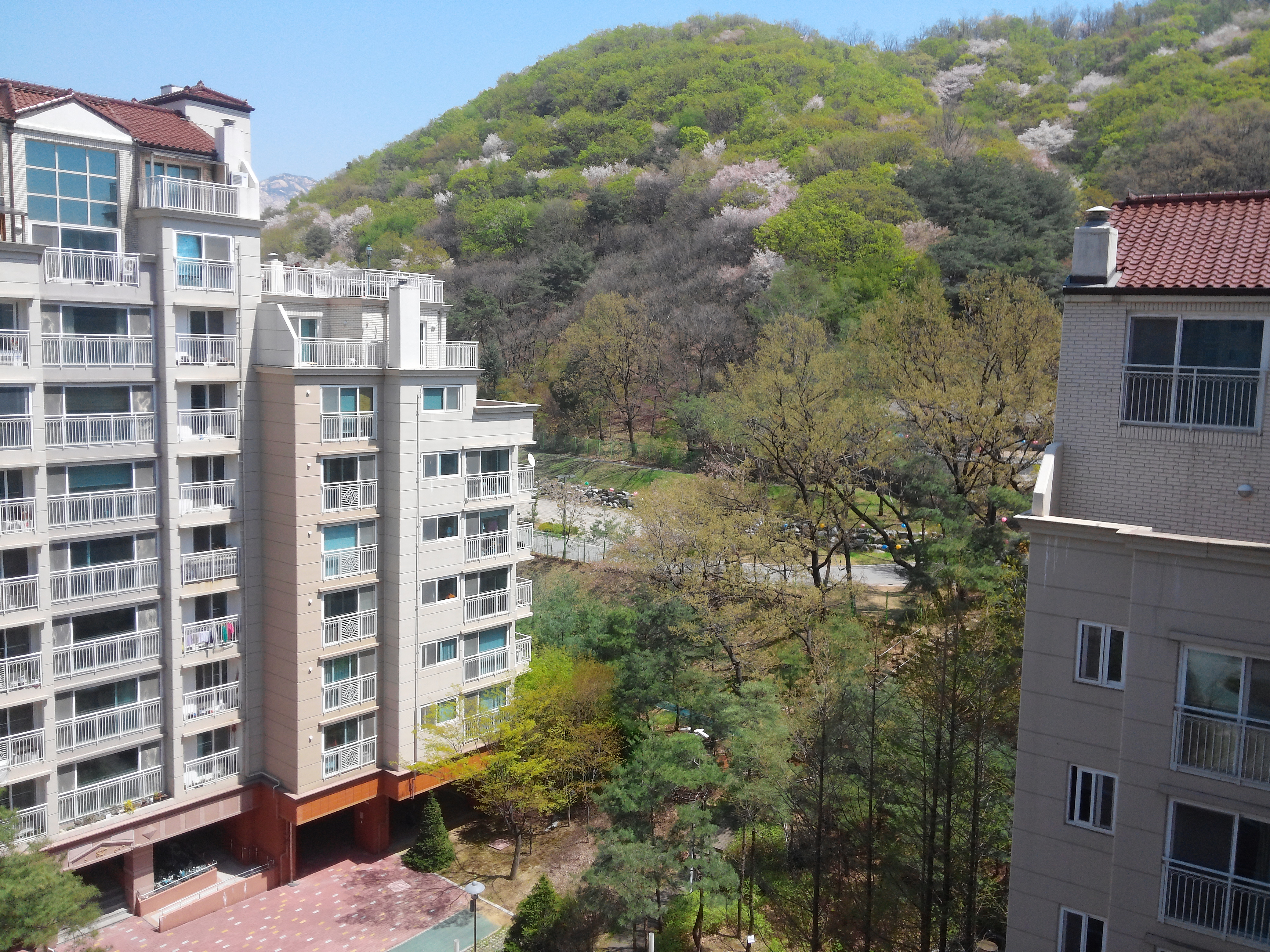 Bukhansan mountain is seen in the background